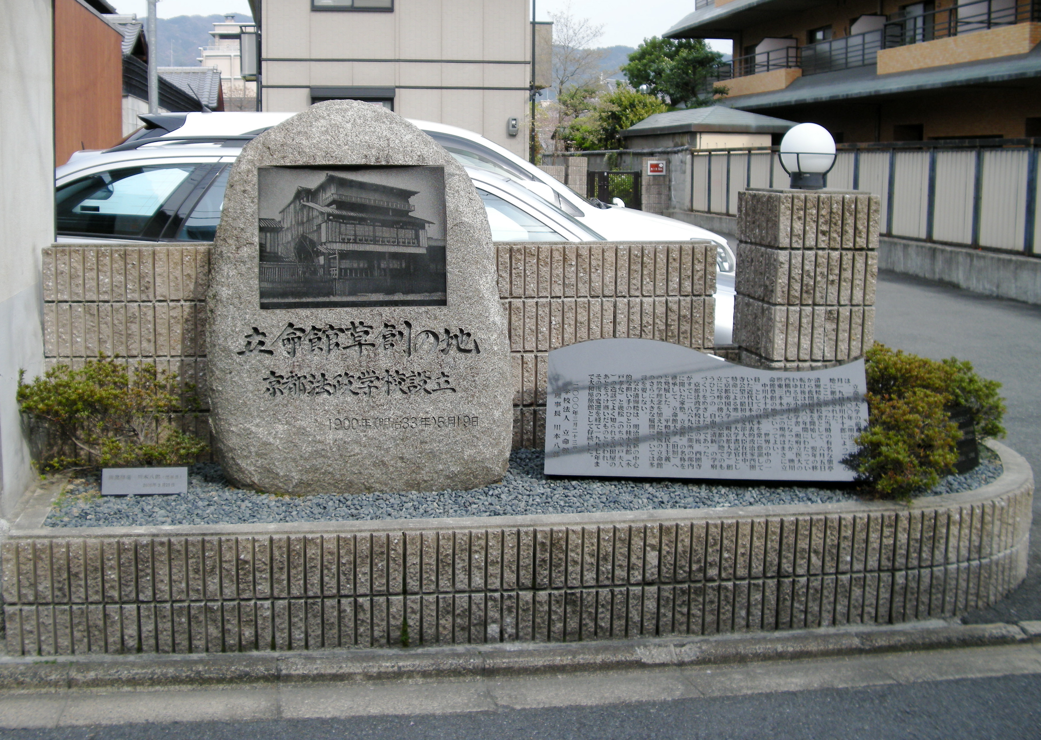 Stone Memorial, Ritsumeikan School Site (Kyoto, Japan)